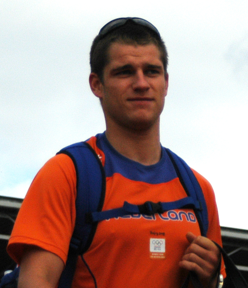 Theo Bos at the Olympic welcome in the Olympic Stadium in Amsterdam, the Netherlands